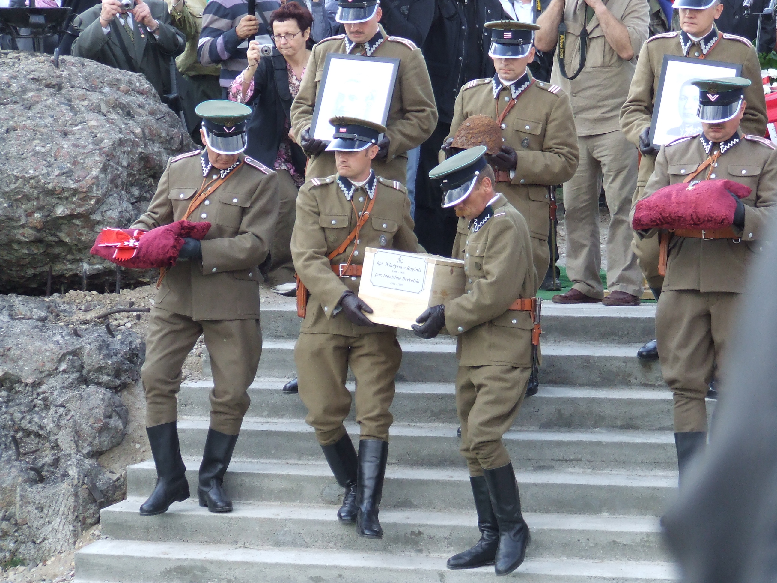 The burial of Cpt. Władysław Raginis and Lt. Stanisław Brykalski in Wizna, 10th Sept. 2011